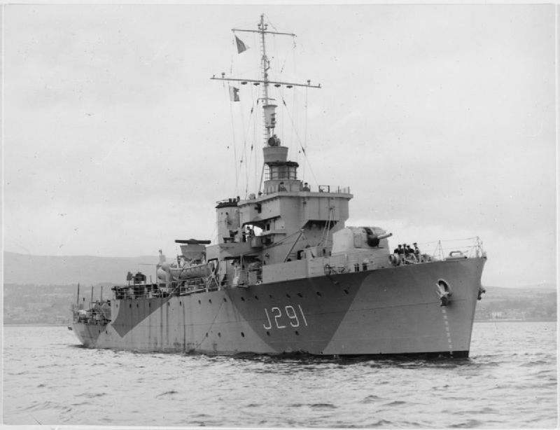 Photograph of British Algerine class minesweeper HMS Pelorus.